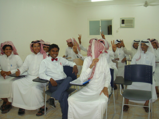 Md. Saifullah Zafar interacting with students